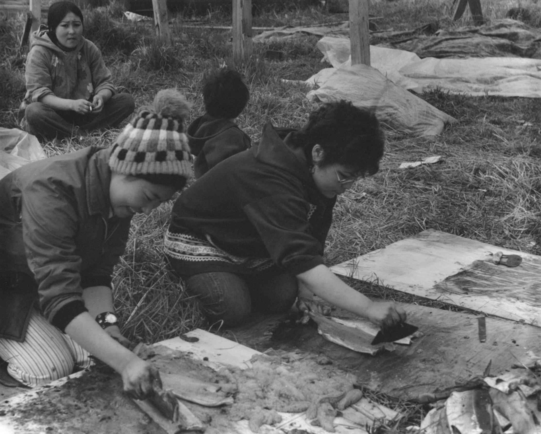 Image title: Native Alaskan women black and white photo Image from Public domain images website